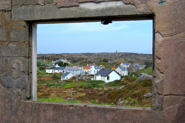 Kincasslagh - View of Kincasslagh village area As viewed through a window frame on the north side of a burned out house west of R259 just south of the Kincasslagh village area.